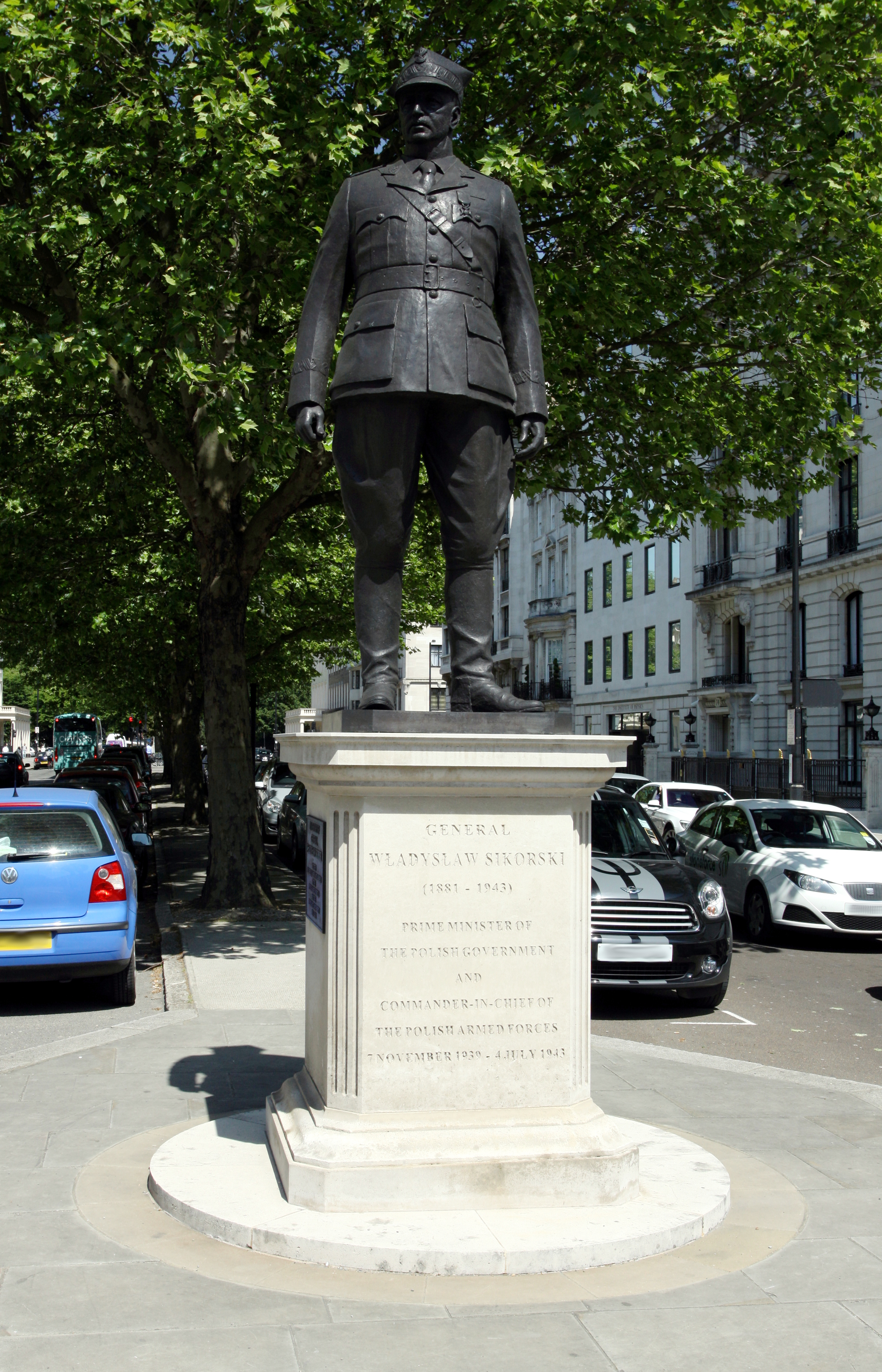 Statue of General Wladyslaw Sikorski in the Portland Place, the City of Westminster in London, England, Great Britain The making of this file was supported by Wikimedia UK.